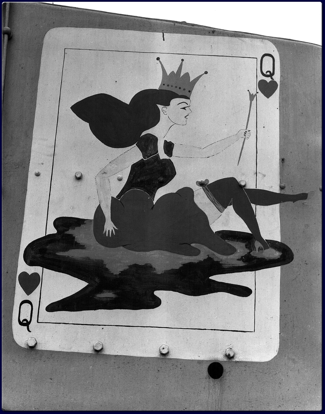 The unofficial ship's gunshield badge of HMCS Wetaskiwin, circa 1941-1944.